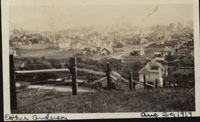 Blue Lake August 20th 1919, taken by Ester Anderson of Lincoln Nebraska. Anderson was a passenger in a train wreck a week later on Aug. 28th, 1919, with further descriptions of the train wreck event on file at the HSU Humboldt Room.